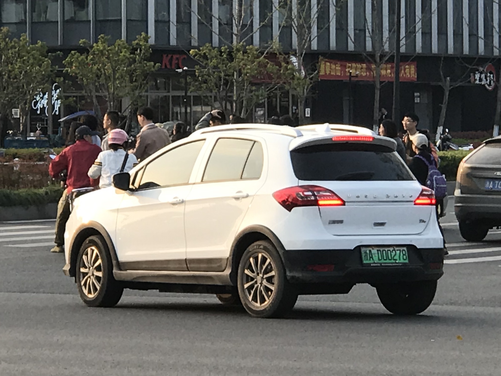 Yudo π1 rear